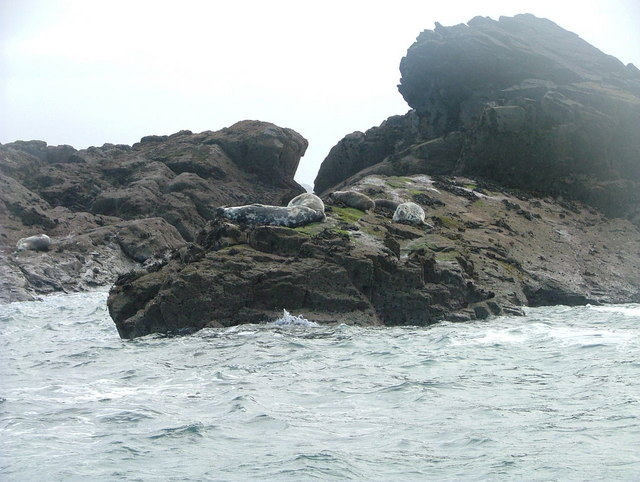 Atlantic seals on The Carracks